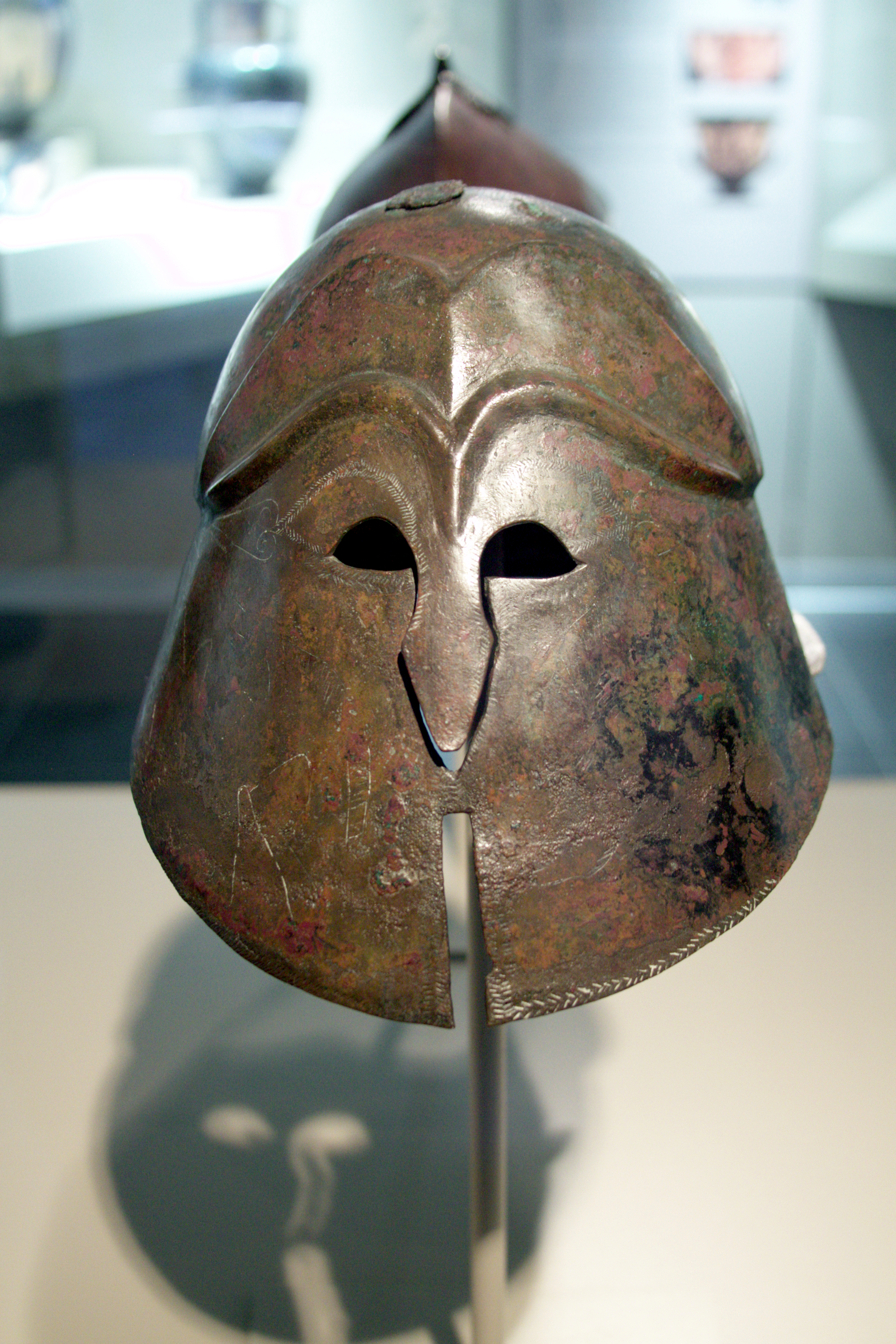 Archaeological Museum in Milan, (Italy). Apulian helmet of "Corinthian" shape, type B. 450/400 b.C.